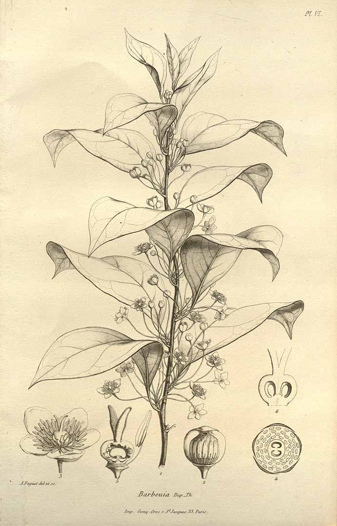 Drawing of Barbeuia madagascariensis, Adansonia vol. 3, 1863 (A. Faguet)